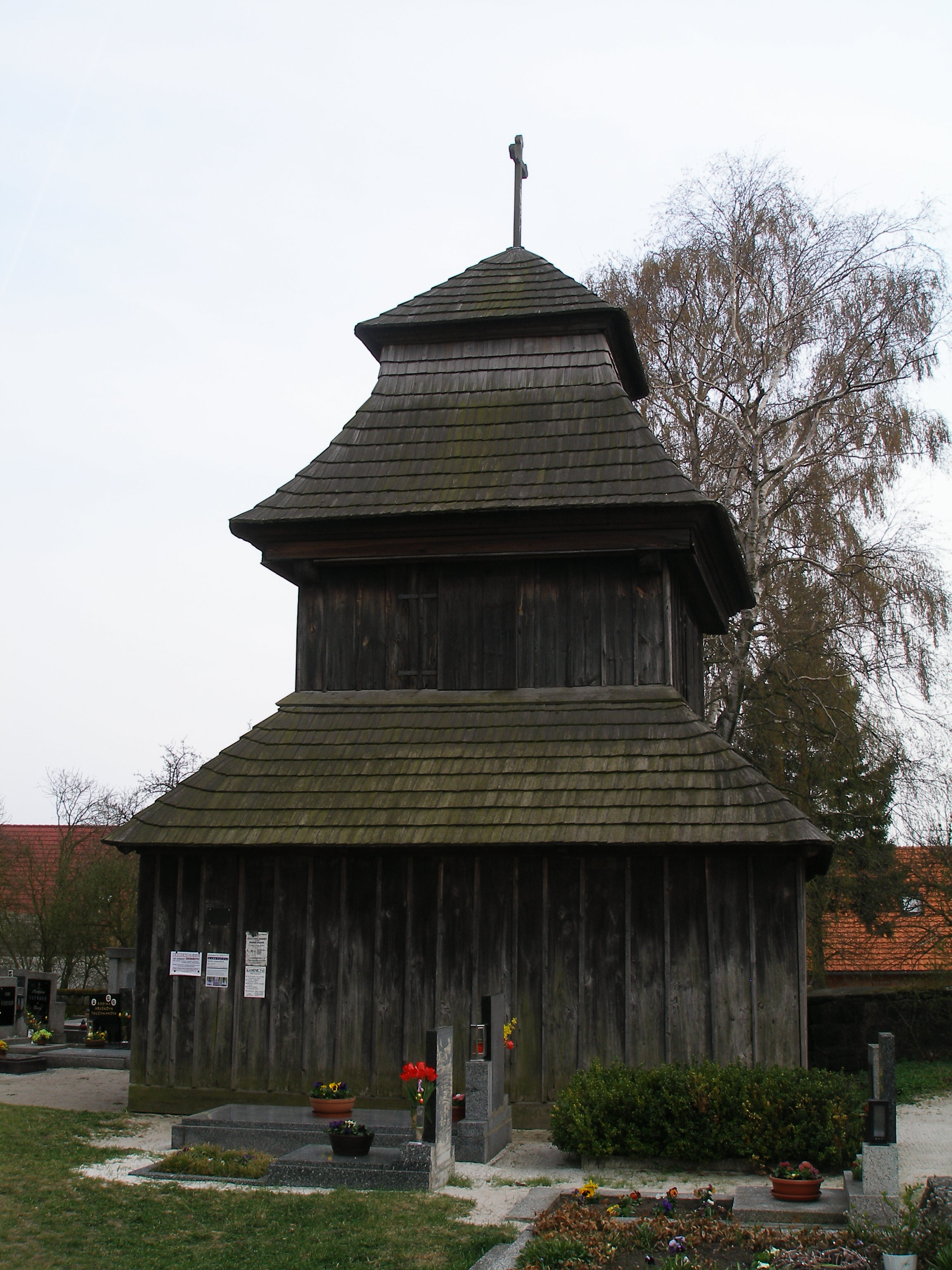 Wooden bell tower in Všeborsko.